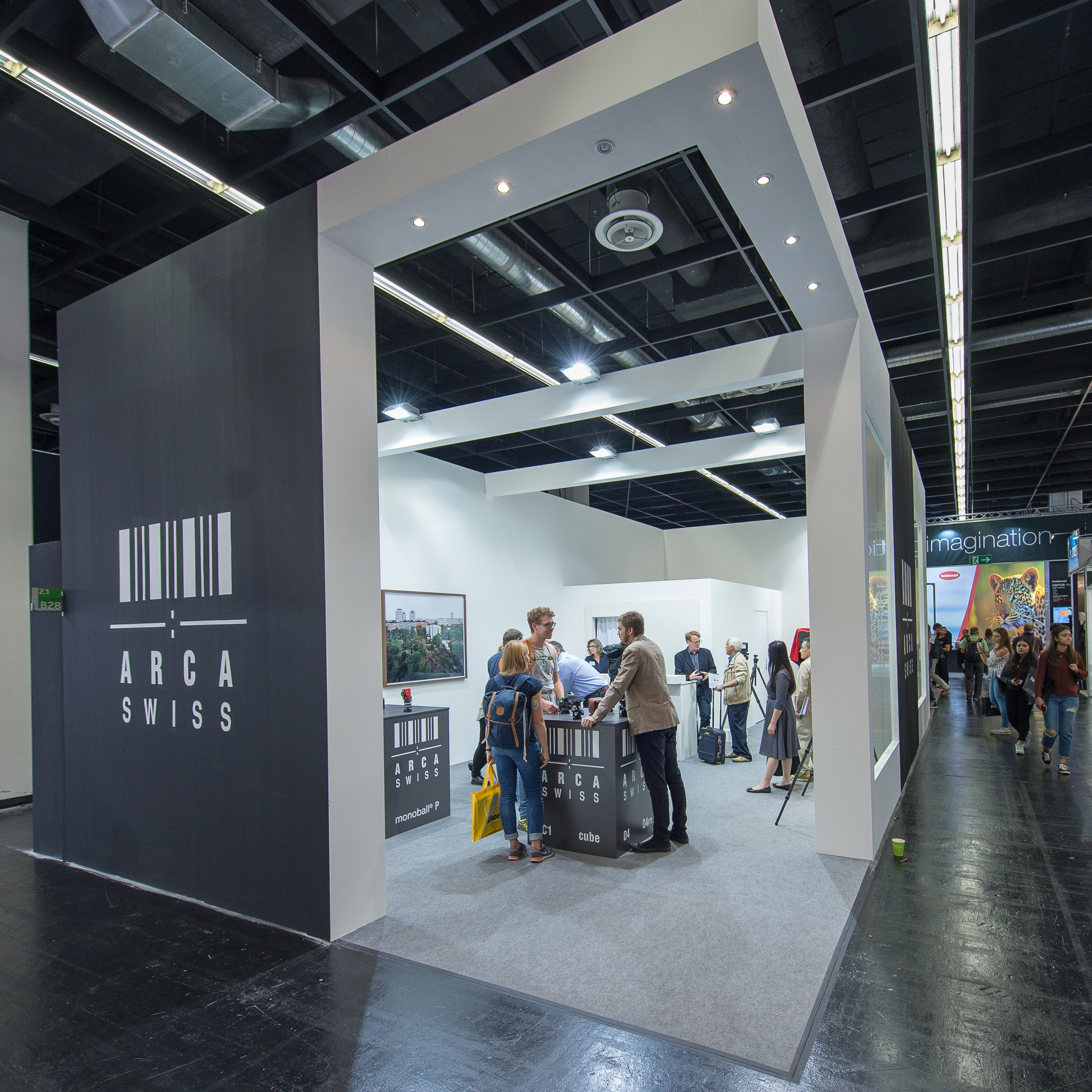 Arca Swiss,Kölnmesse,Photokina 2016